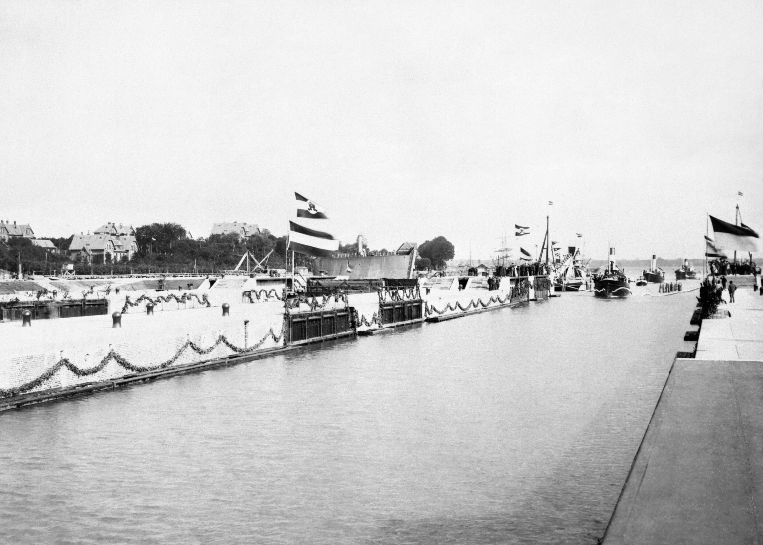 Germany Before the First World War 1890 - 1914 Construction of the Kiel Canal, 1887 - 1895. The Baltic Lock at Holtenau opens to shipping, 30 September 1894. The Kiel Canal, a 61 mile long waterway linking the North Sea at BrunsbÃ�ttel, Germany to the Baltic Sea at Kiel-Holtenau, Germany was source of international tension from its inception. Its construction allowed the increasingly powerful German Imperial Navy to move rapidly from its Baltic ports to open sea without travelling through the waters of other countries. During 1907 - 1914, it was enlarged to accommodate the larger warships then being constructed with the intention of enabling the Imperial Germany Navy to surpass the power of the British Royal Navy. The consequent escalation of tension between Germany and Britain contributed to the outbreak of the First World War.